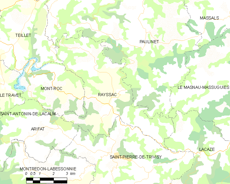 Map commune FR insee code 81221.png - Rayssac